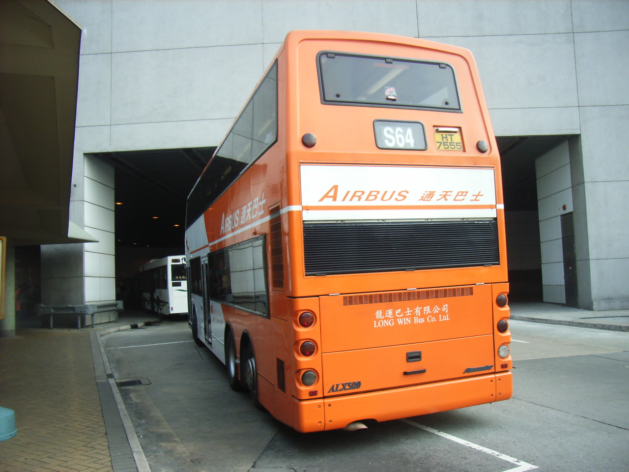 Buses and stations in Tung Chung, Lantau, Hong Kong.